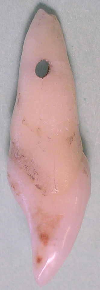 Photo of a permanent maxillary central incisor (#9 by the universal system of notation) taken from the mesial view. Source: Photo taken by dozenist on June 6, 2006.